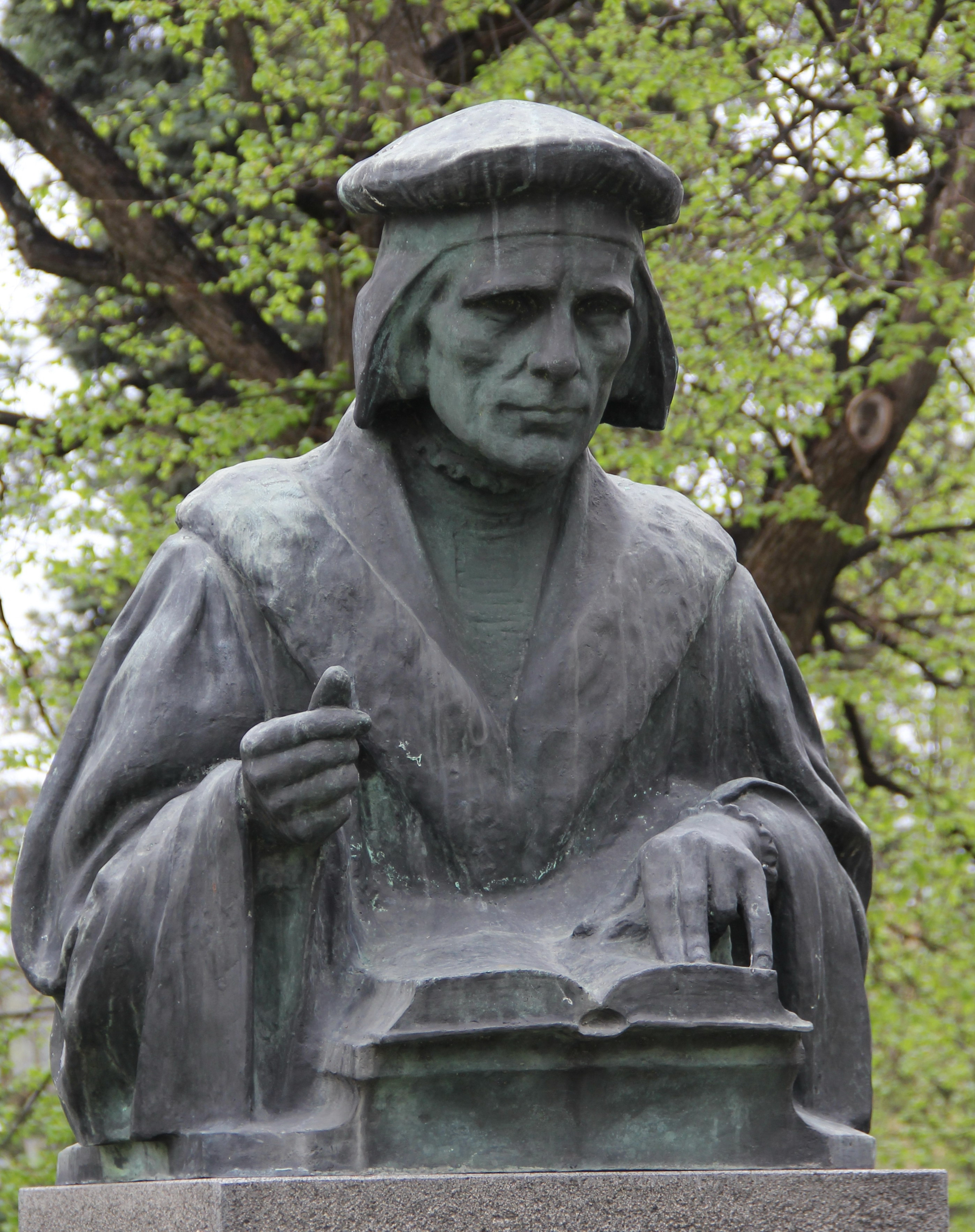 Bust of Mikael Agricola (1908/1953). Bronze bust (copy of original (1908)) by finnish sculptor Emil Wikström (1864-1942). Unvealed in 1953. Location: Erkonpuisto Park, Vuorikatu - Sibeliuksenkatu corner, Lahti, Finland